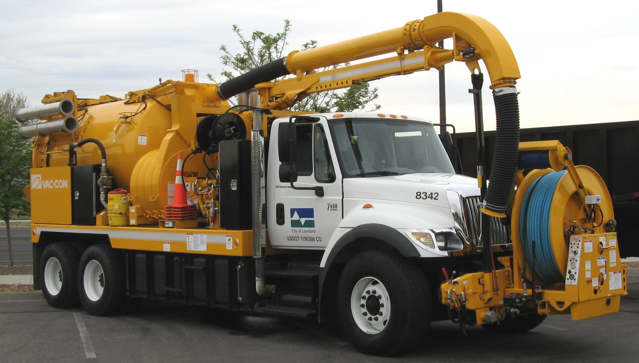 vacuum cleaner truck, Loveland, Colorado / 2008